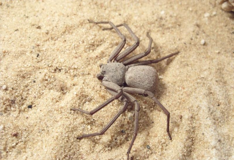 A Sicarius levii.